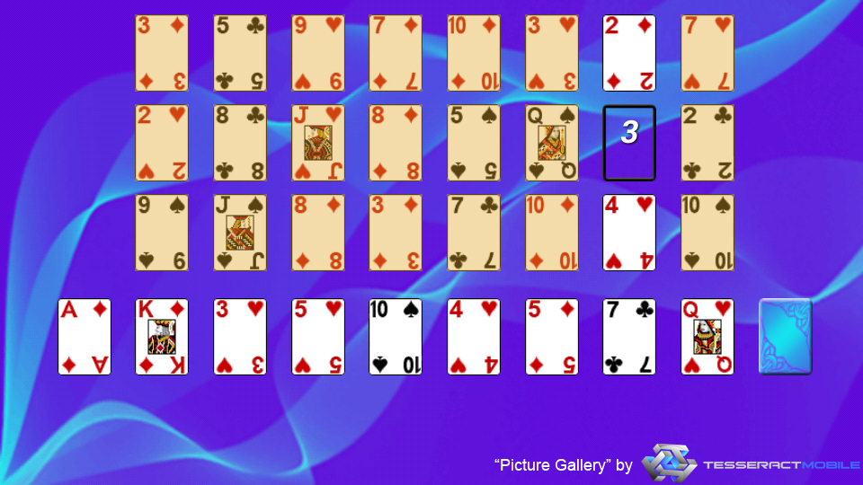 This image is a screenshot of the solitaire game "Picture Gallery".